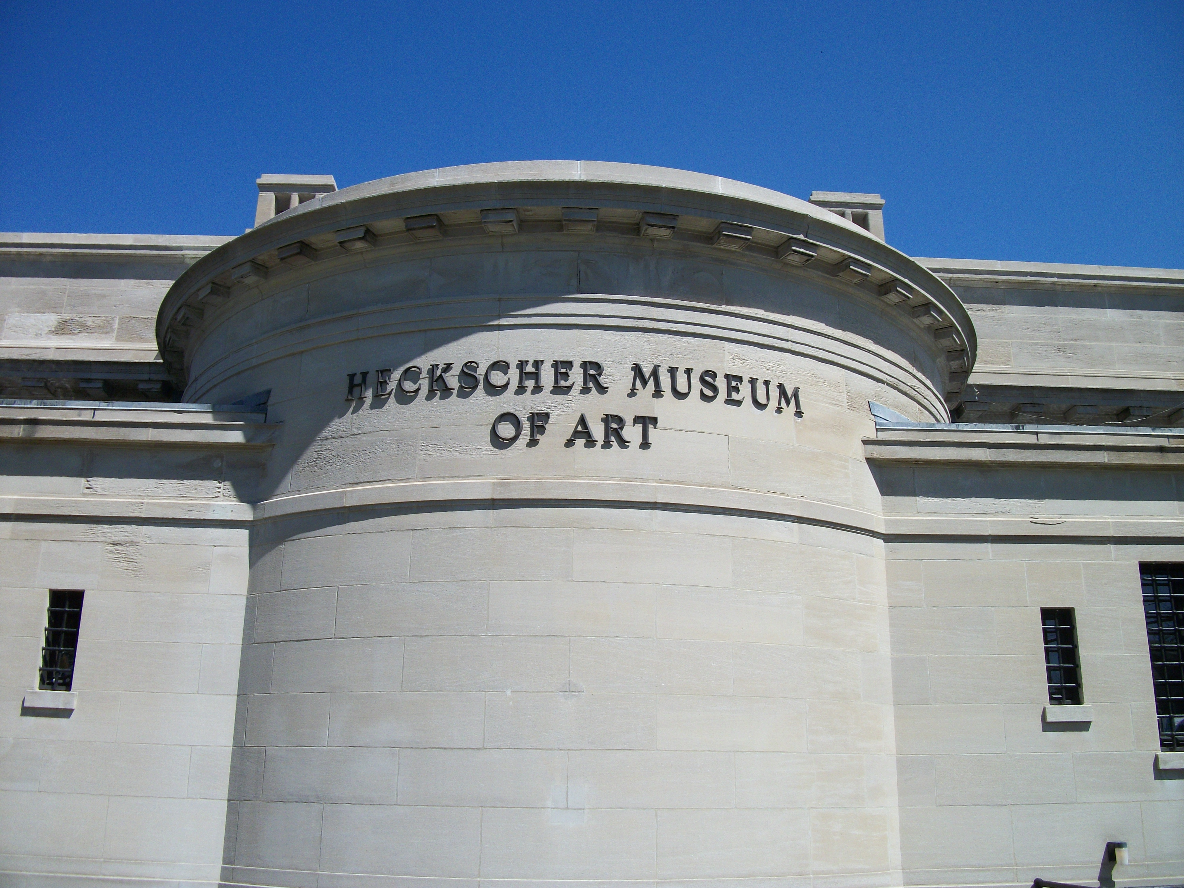 Side view of the Heckscher Museum of Art, in Huntington Village, New York.